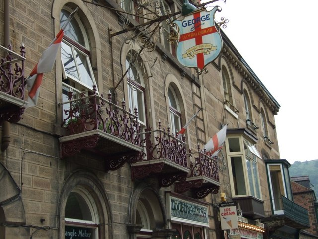 Balconies Cast iron Balcony rails on the George inn, Matlock Bath.